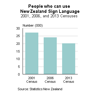 2013 New Zealand census - people who can use New Zealand Sign Language, 2001, 2006 and 2013 censuses.